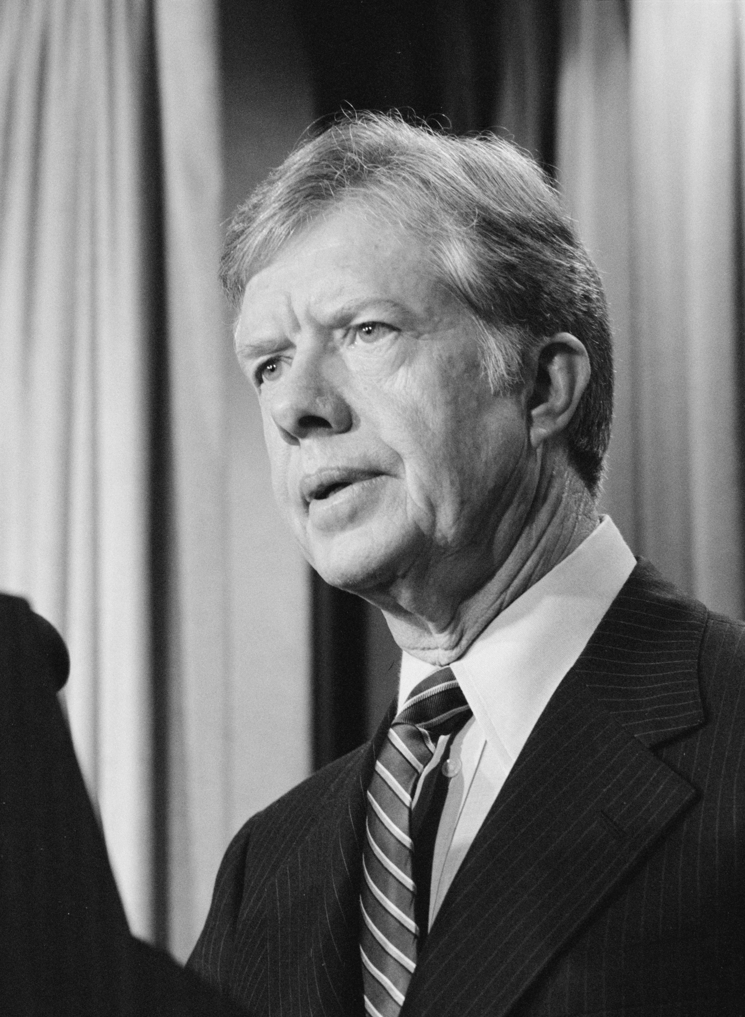 President Jimmy Carter announces new sanctions against Iran in retaliation for taking U.S. hostages